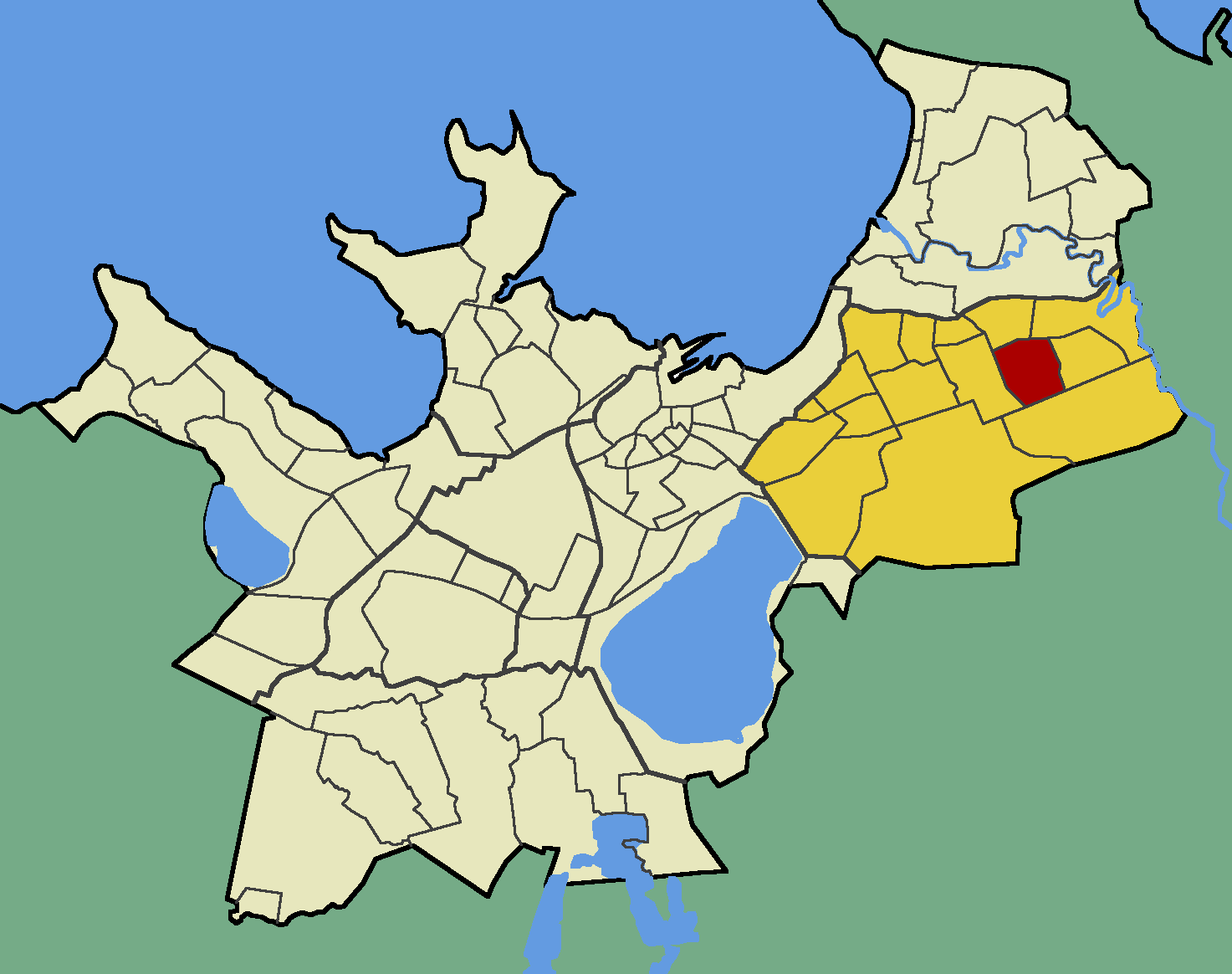 Map of Tallinn (Estonia) with borders of the quarters, Lasnamäe district and Mustakivi quarter emphasised